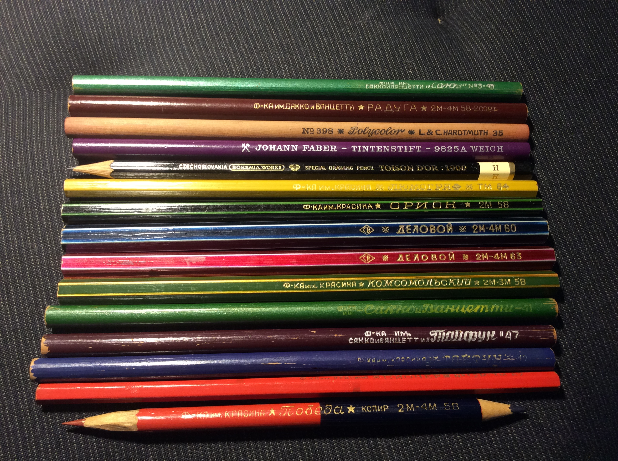 Colored pencils of various manufacturers, 1930s - 1960s